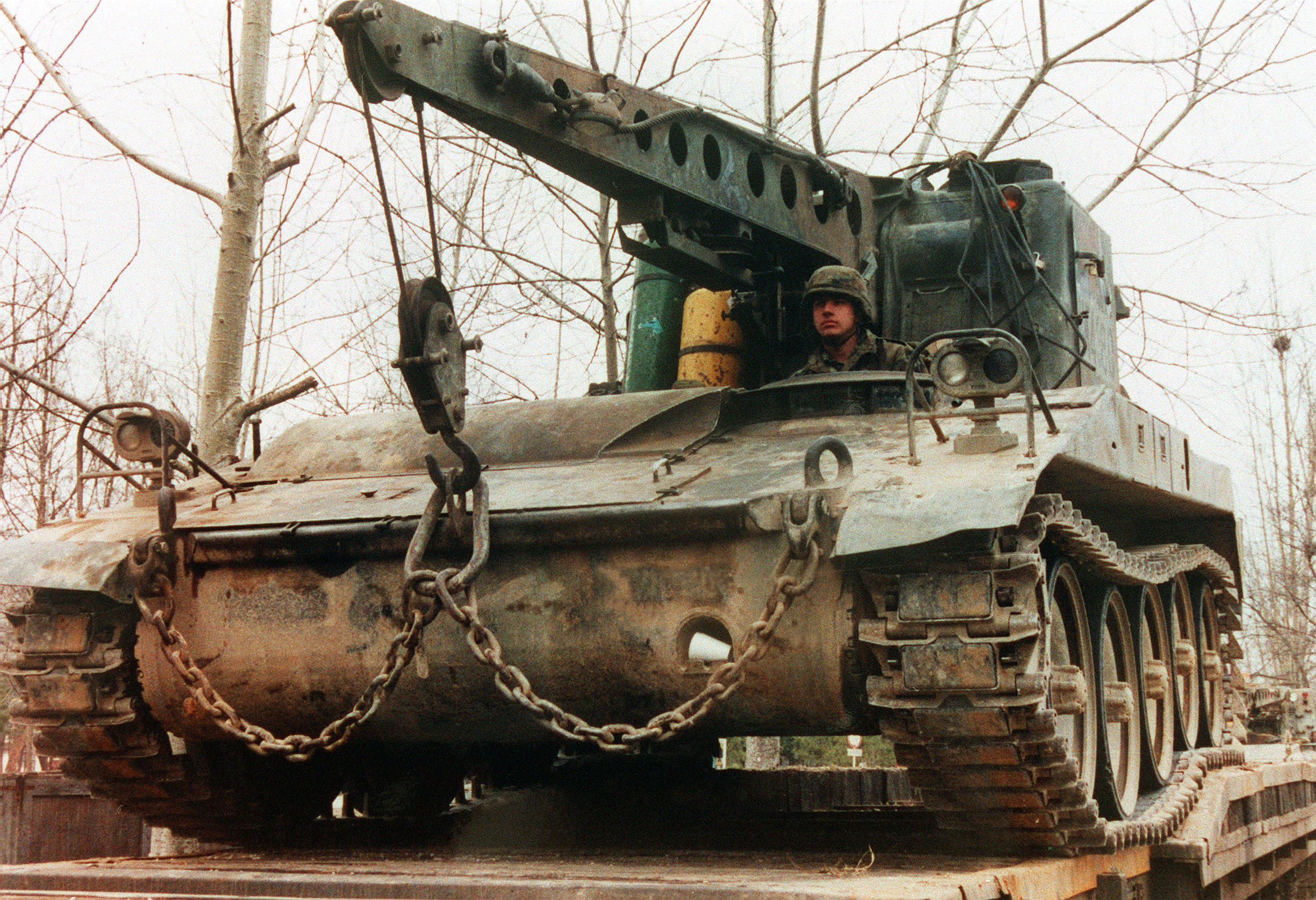 Close-up left front view of a M578 armored recovery vehicle on deployment.